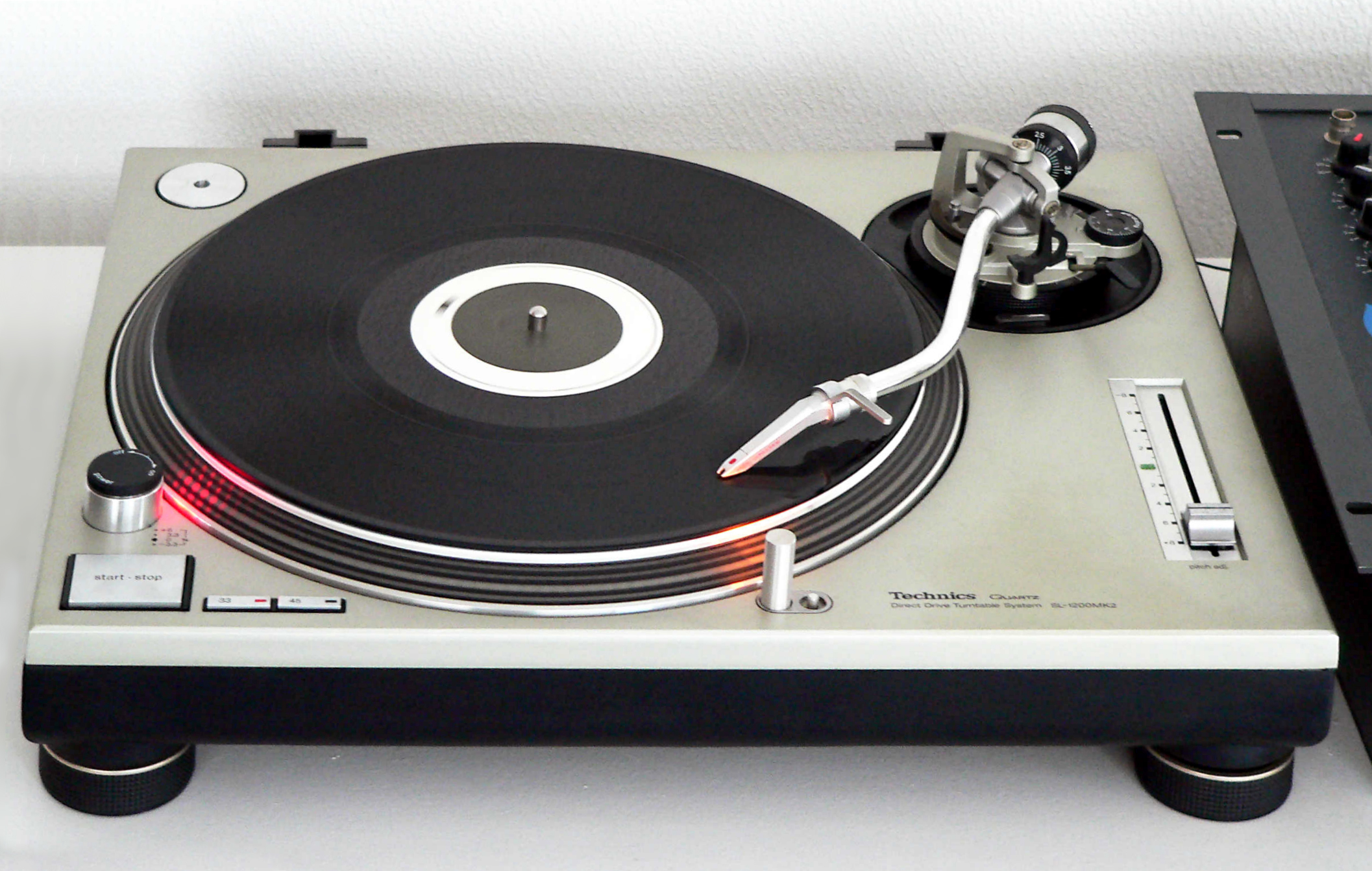 Technics SL-1200MK2 turntable in a natural environment.